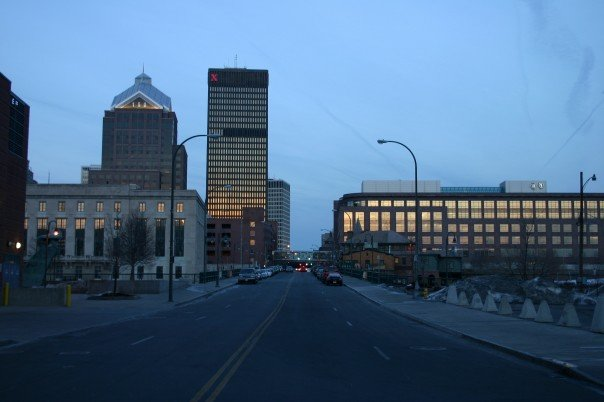 Rochester, NY a view from Court Street at dusk